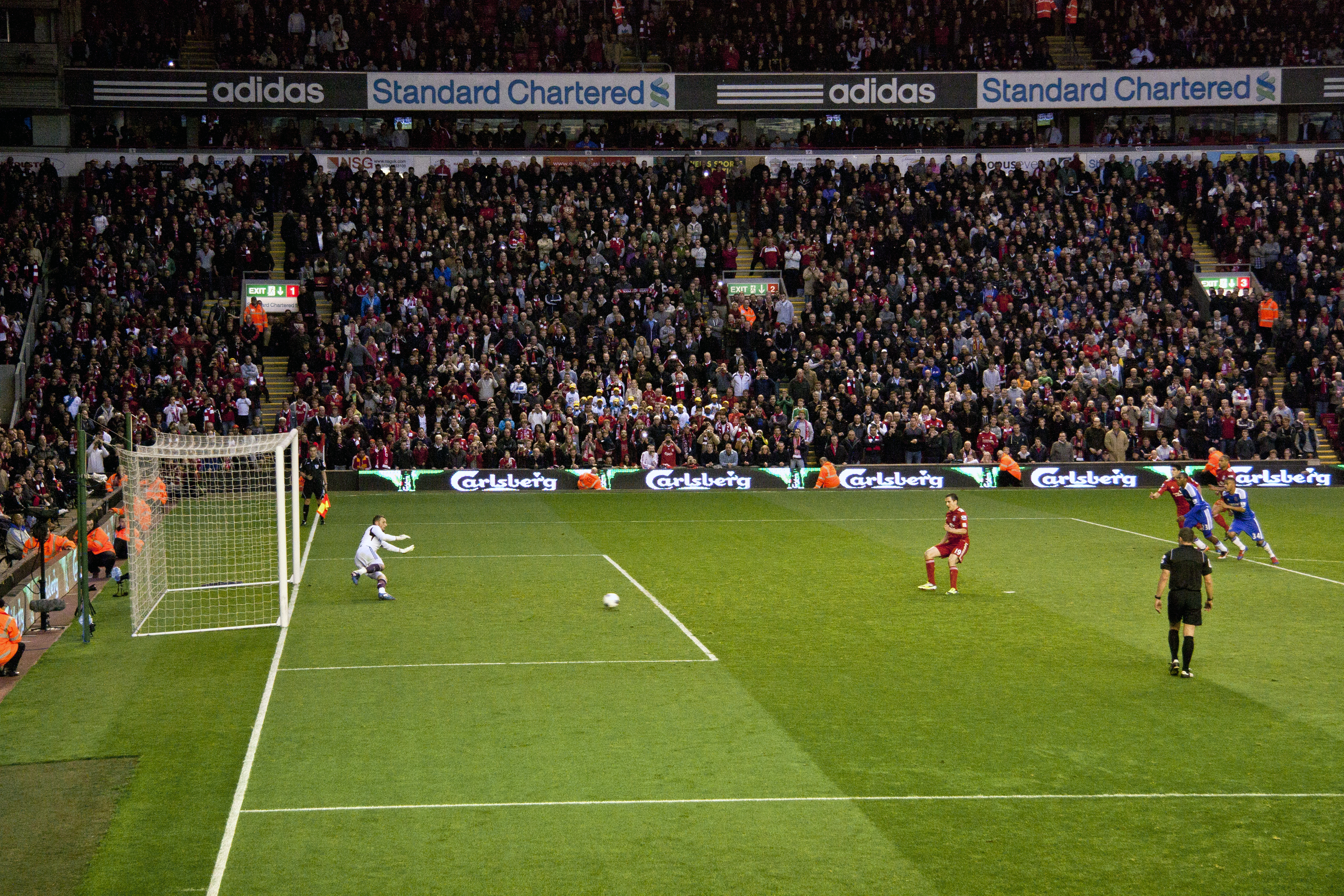 Stewart Downing taking penalty against Chelsea FC.